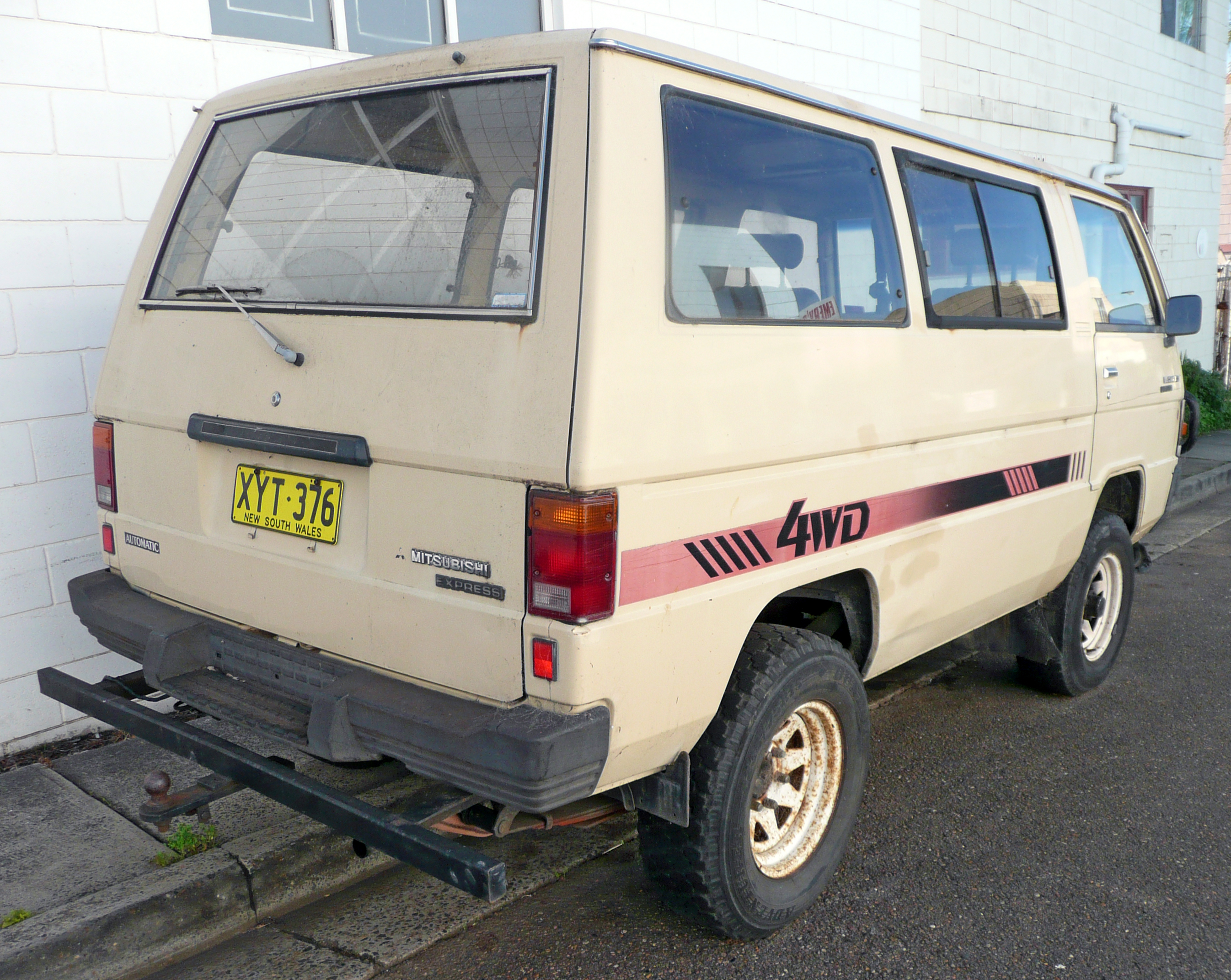 1985 Mitsubishi L300 Express (SD) 4WD van. Photographed in Kirrawee, New South Wales, Australia.